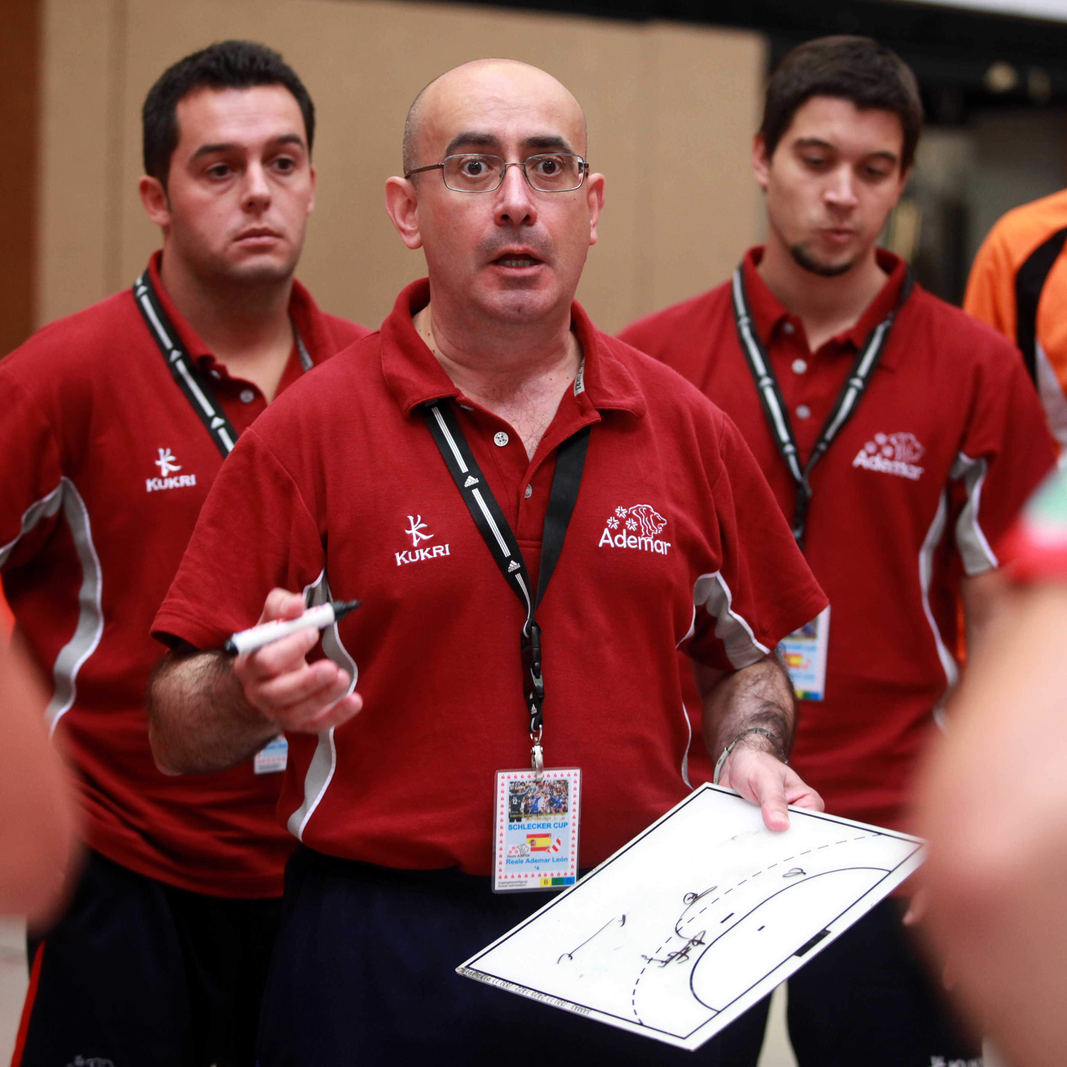 Jordi Ribera coach of Ademar León, on August 14th, 2010 in Ehingen (Germany), during the Schlecker Cup 2010.